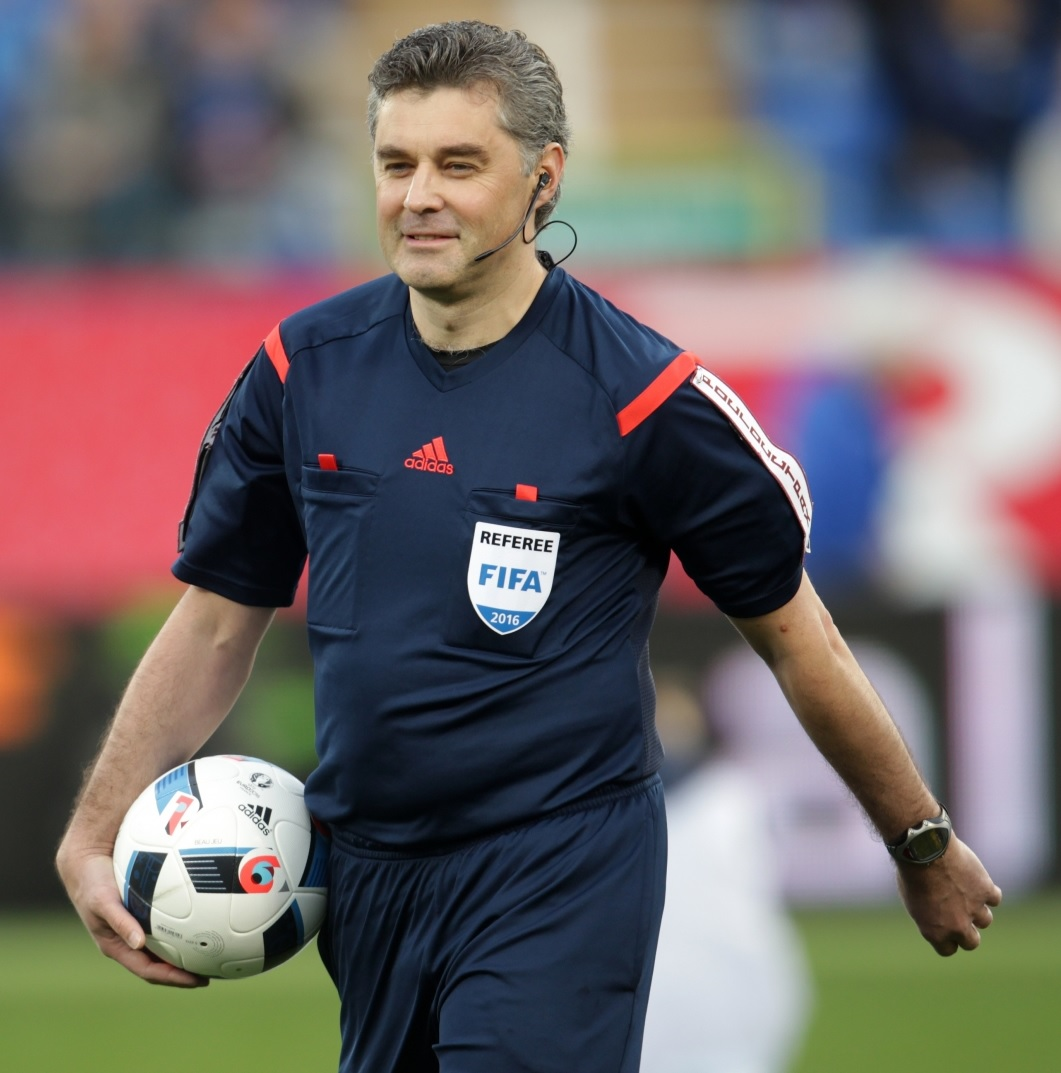 Aleksei Nikolayev refereeing the game between FC Zenit Saint Petersburg and FC Kuban Krasnodar on 28 April 2016.